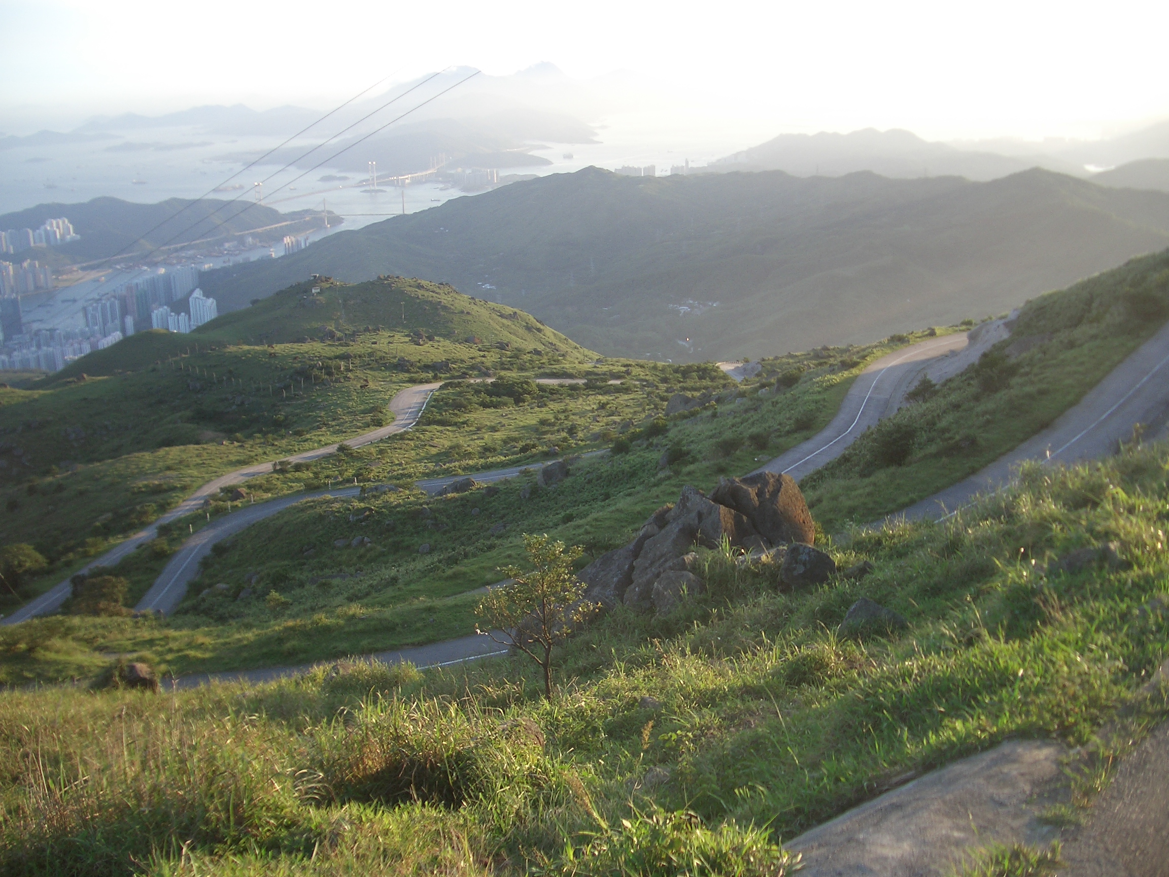 Upper section of Tai Mo Shan Road meandering up the mountain